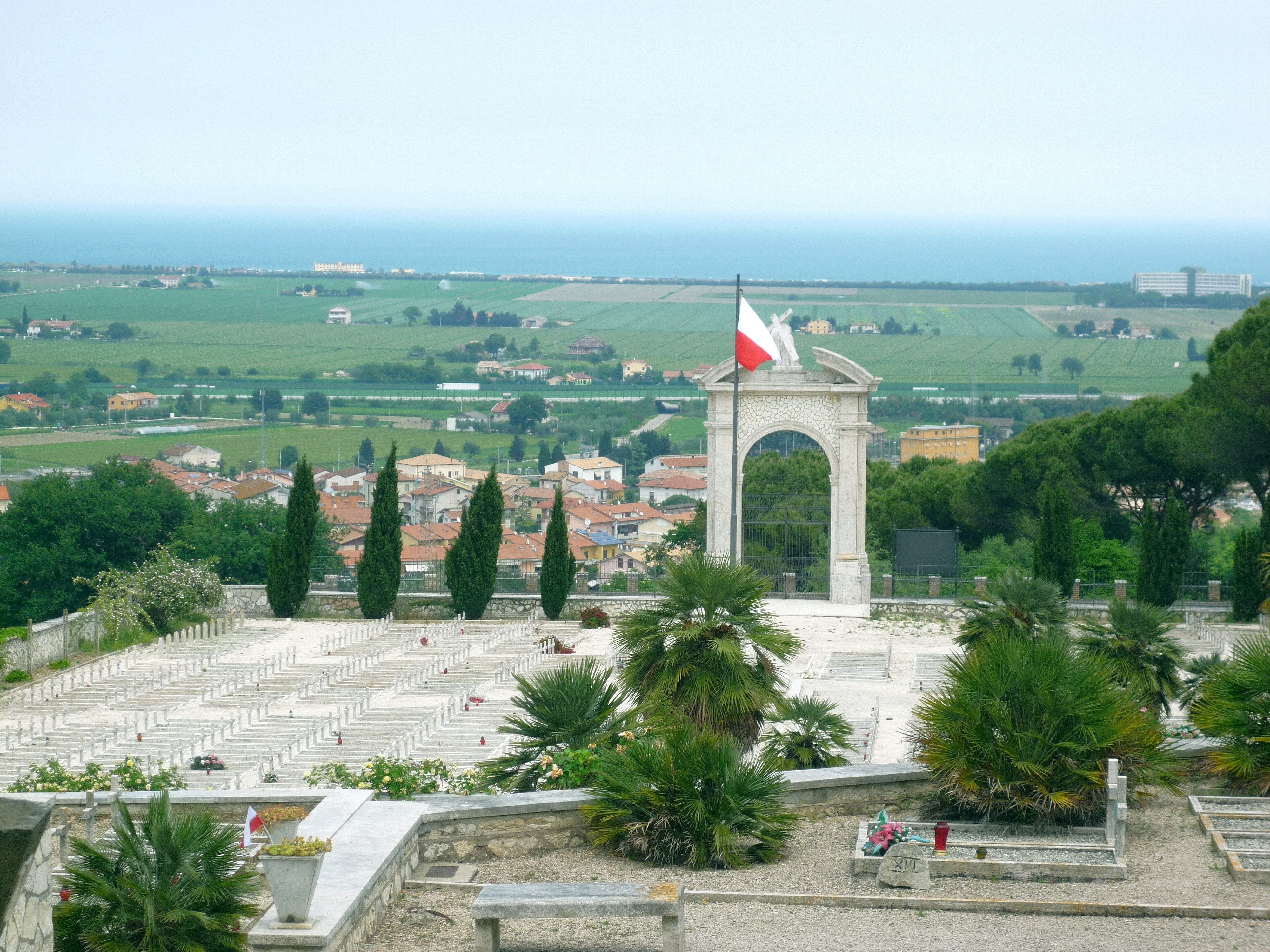 Polish war cemetery in Loreto, Italy